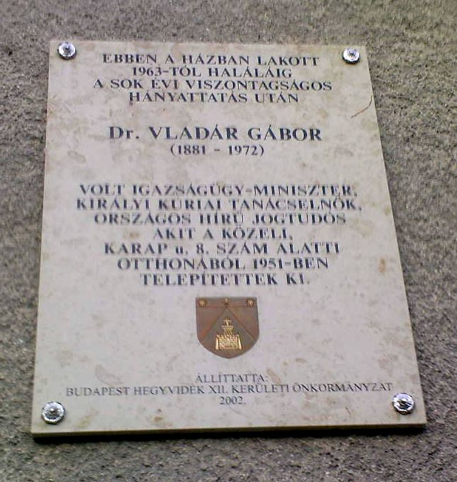 Gábor Vladár commemorative plaque in Budapest District XII, Goldmark Károly Street No 9.